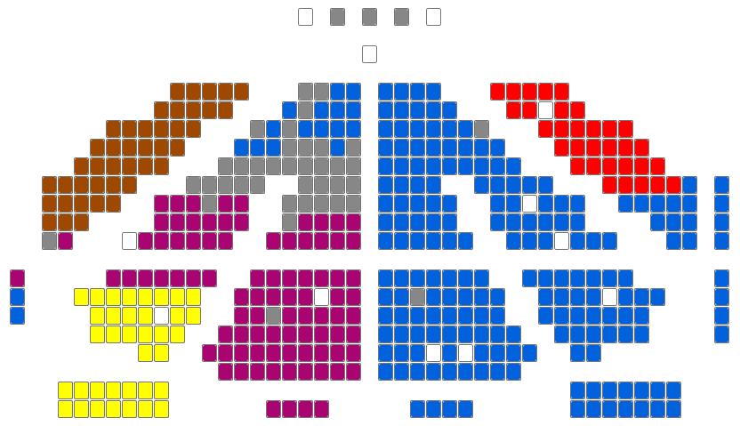 Arrangement of Parliamentary groups in the hall of the Verkhovna Rada of Ukraine on 7 convocation - Ukrainian Democratic Alliance for Reform (UDAR) - All-Ukranian Union "Freedom" - All Ukrainian Union "Fatherland" - Party of Regions - Economic Development - Sovereign European Ukraine - For Peace and Stability - Other